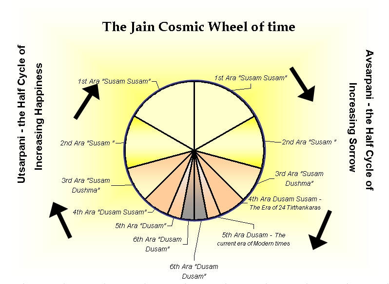 The Jain Cosmic time Cycle Created on powerpoint by me